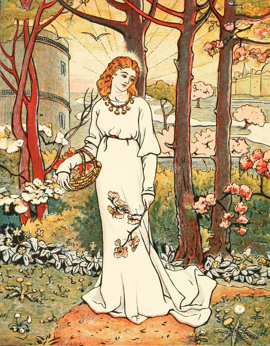 Illustration from Mary Eliza Haweis' Chaucer for Children (1882).